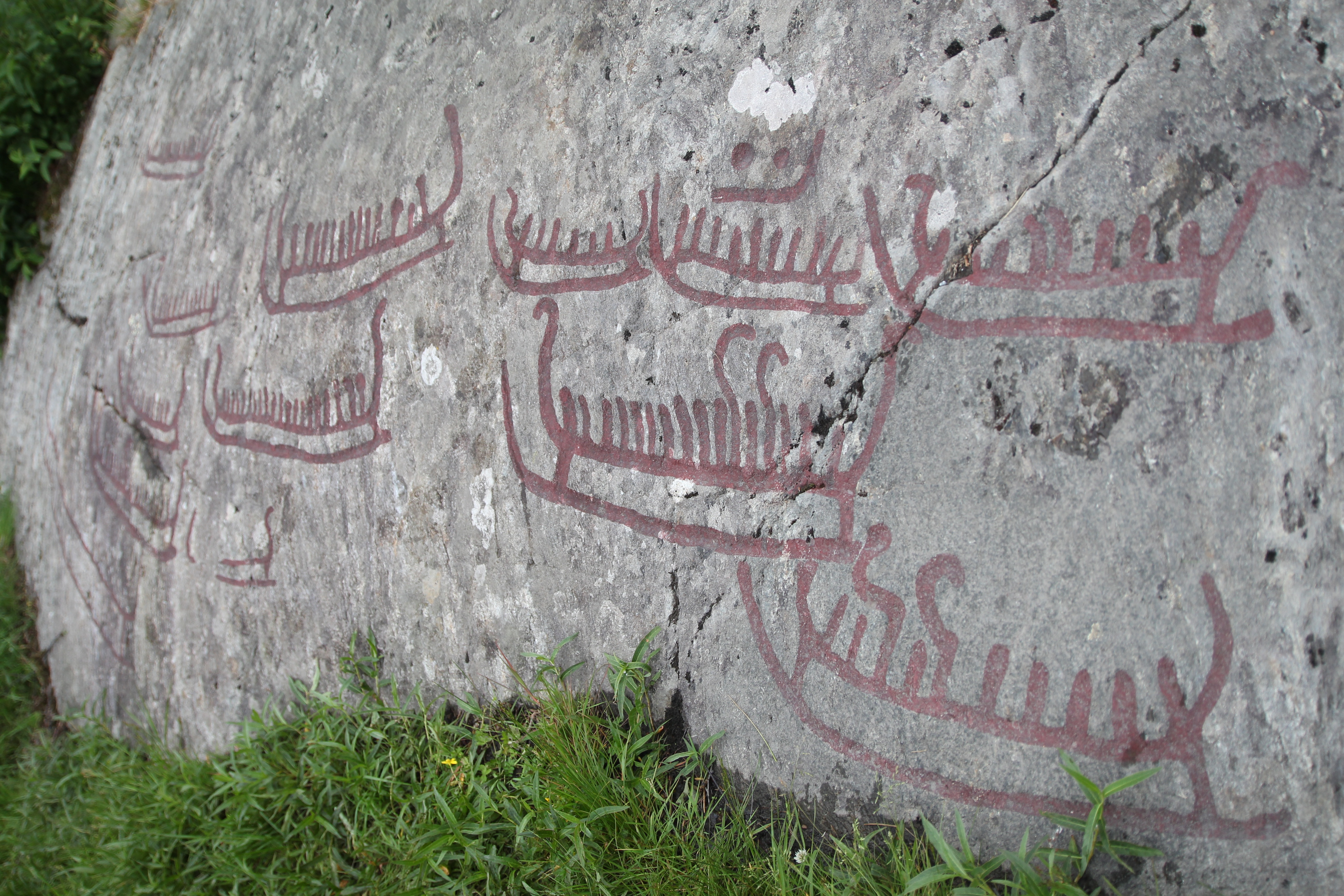 Petroglyph in Basteröd dated to 1800 - 500 B.C. showing a total of 15 ships sailing southeast. Petroglyph carved with unusually broad lines. One of the ships is the longest among Tjörn's petroglyphs with a total of 157 cm